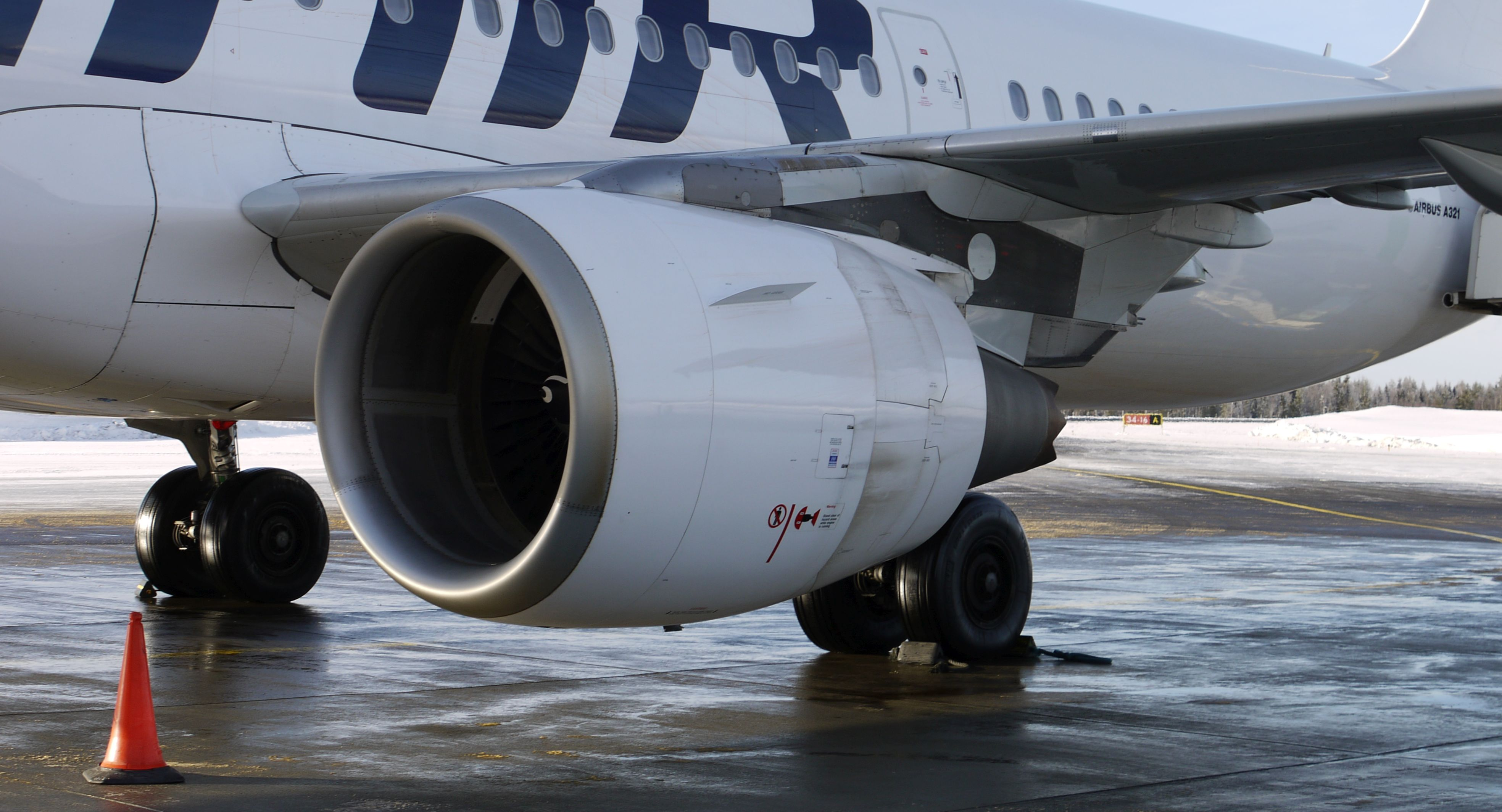 Port engine nacelle of Finnair Airbus A321 OH-LZA.